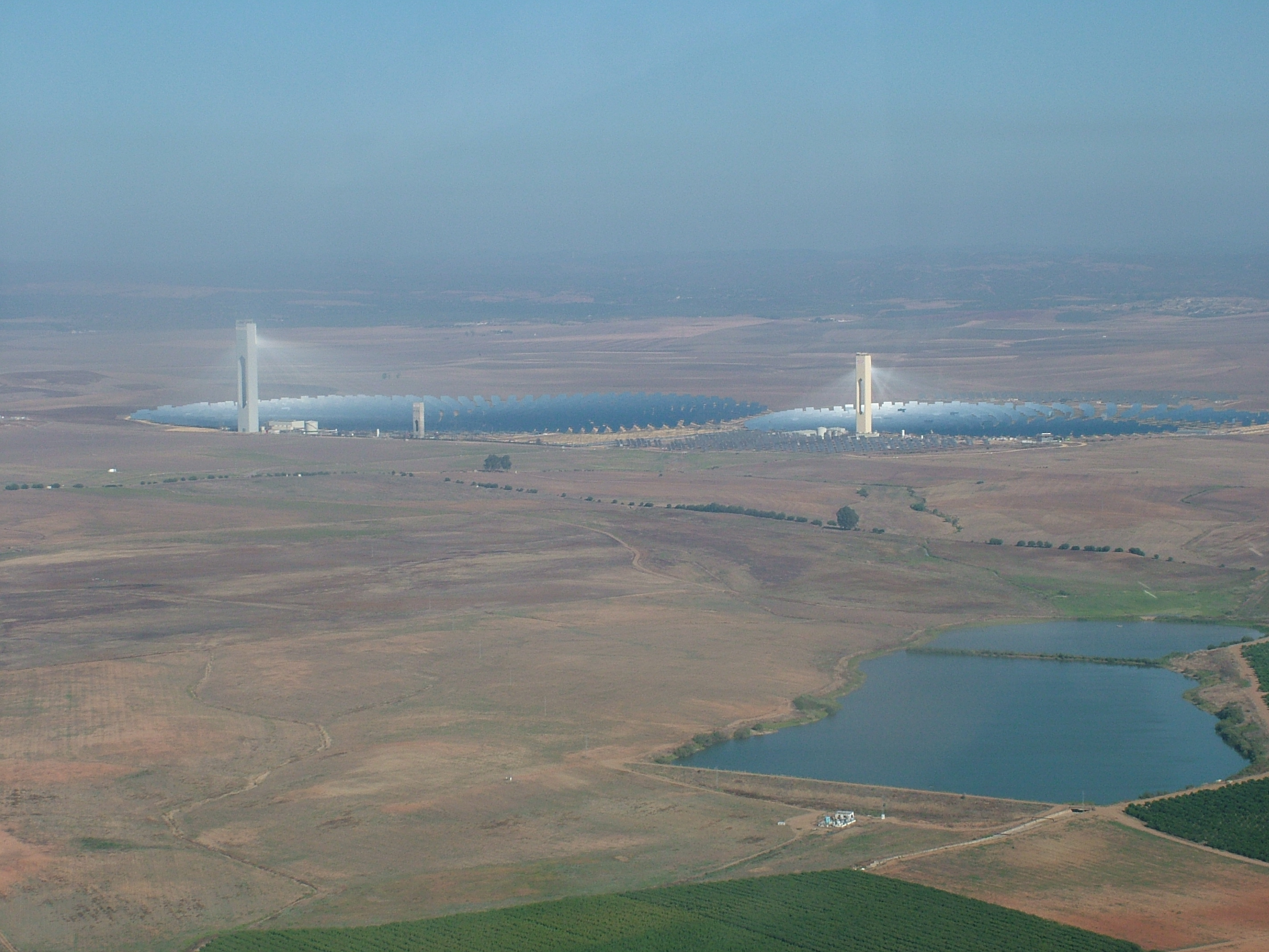 Aerial view of the PS10 and PS20 solar power plants at Solucar Complex in Seville, Spain.